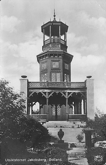 lookout tower in jacobsberg, gotland